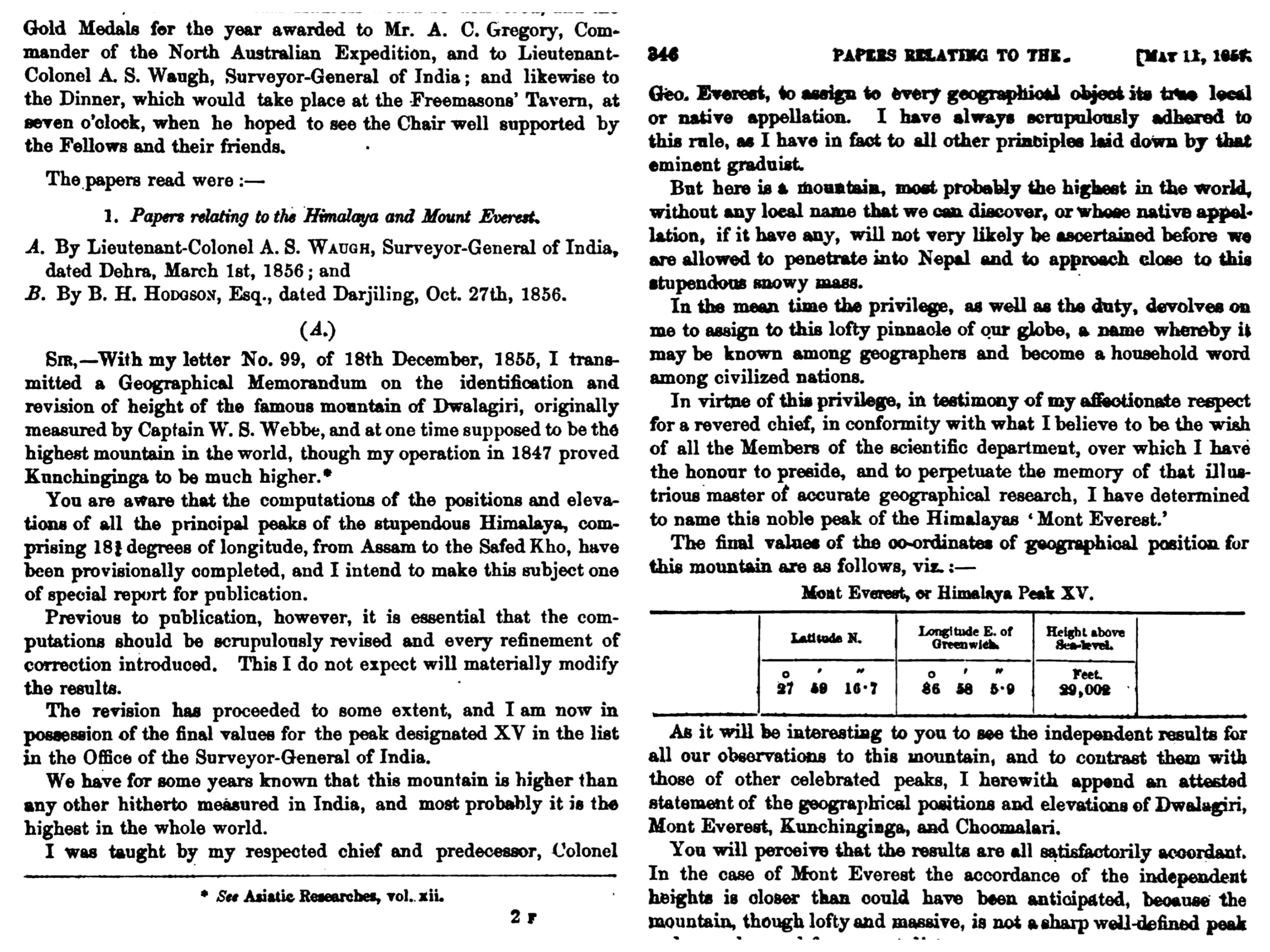 "Papers relating to the Himalaya and Mount Everest" in Proceedings of the Royal Geographical Society of London, Vol. I (1857), p. 346